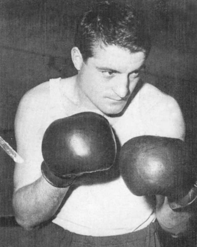 Ion Monea